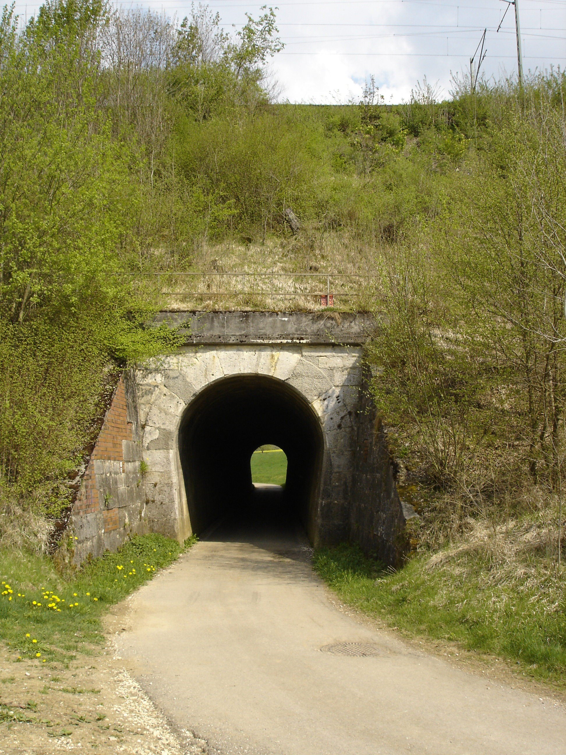 Railroad subway near Westerstetten.